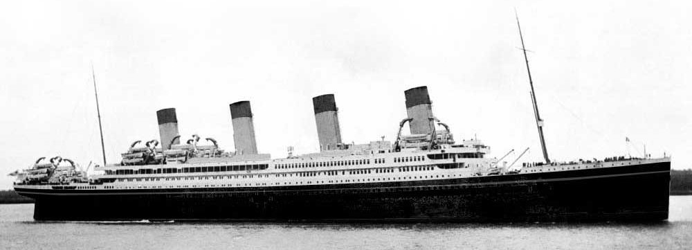 Artist's conception of the Britannic in her intended White Star Line livery. Crop of File:RMS Britannic.jpg Source: The Maritime Digital Archive Encyclopedia there is stated to use the GNU Free Documentation License. It is also stated that this image is allowed for anyone to use it for any purpose including unrestricted redistribution, commercial use, and modification. This photo was taken prior to 1940, and it possibly already in the public domain.